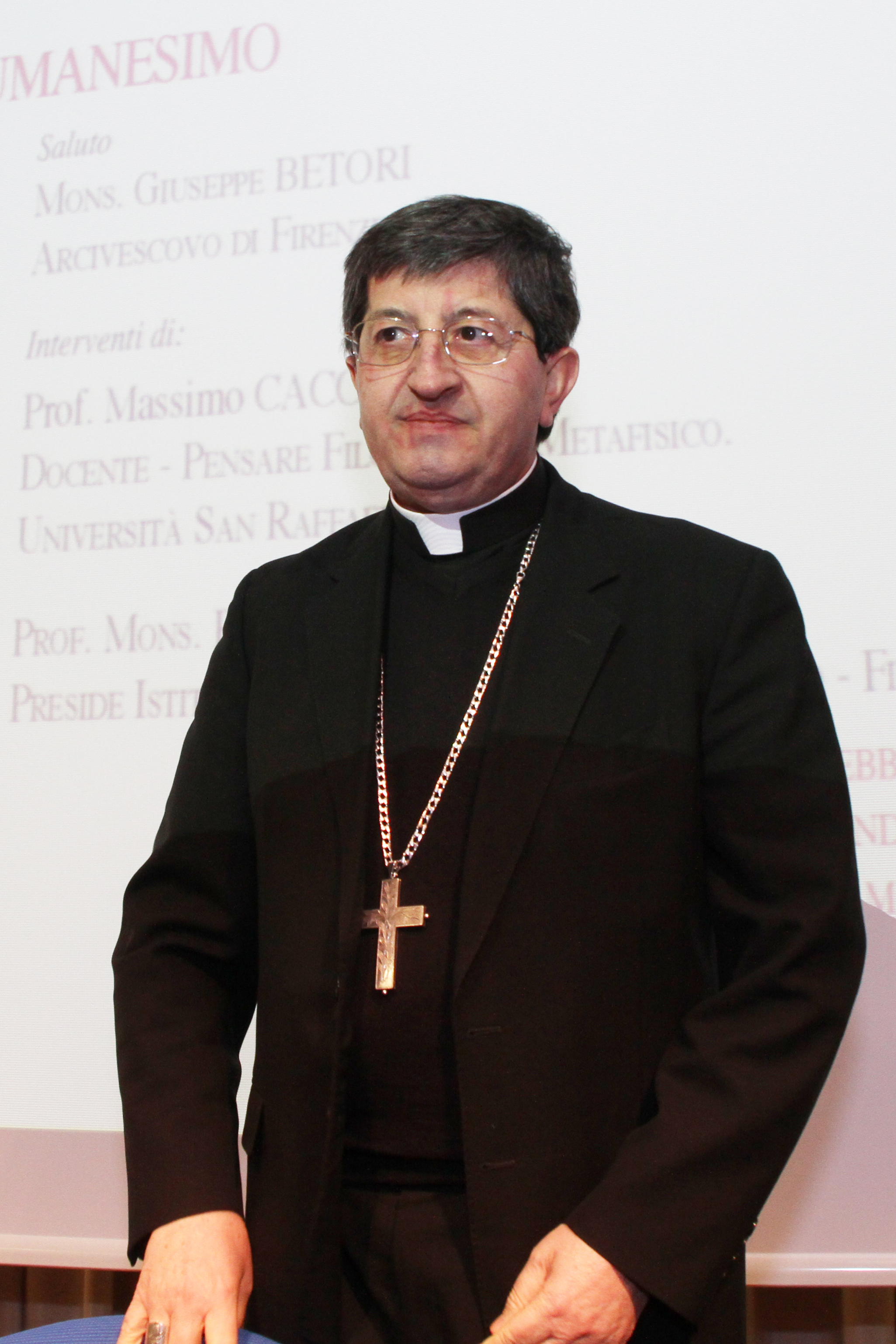 Giuseppe Betori (born 25 February 1947 in Foligno, Italy) is an Italian cleric of the Roman Catholic Church. He is the current archbishop of Florence and the former Secretary General of the Italian Episcopal Conference.